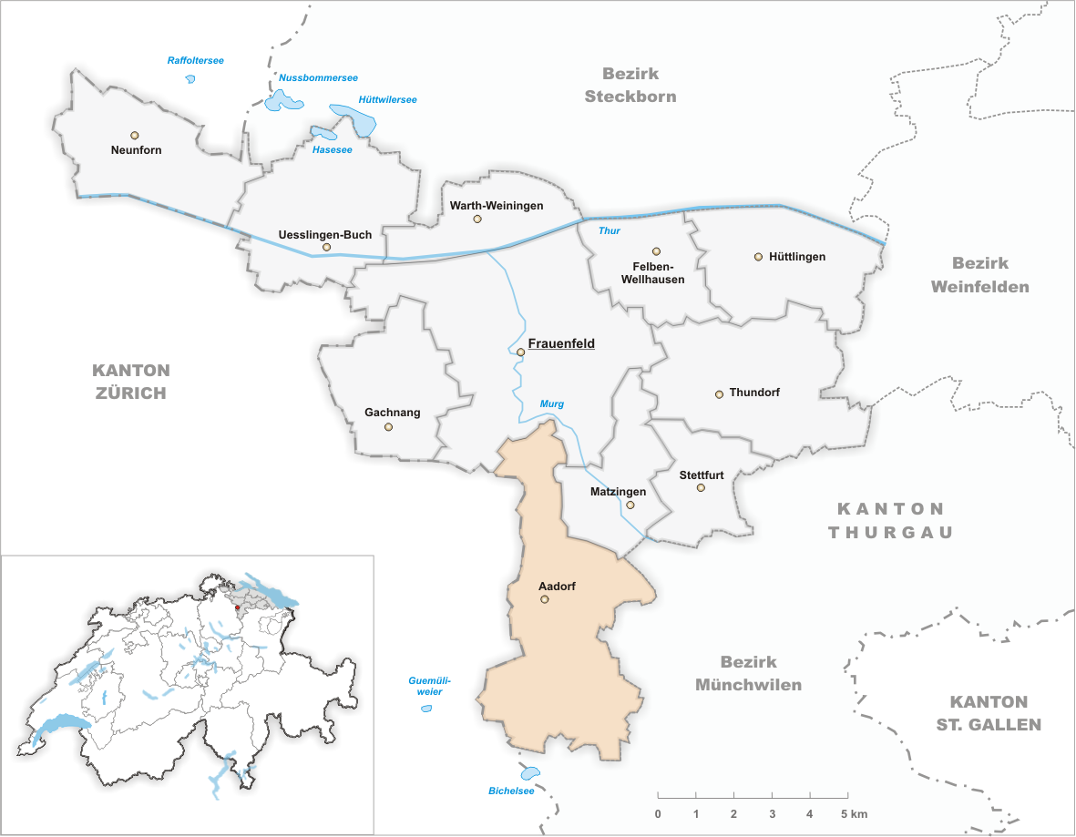 Municipality Aadorf